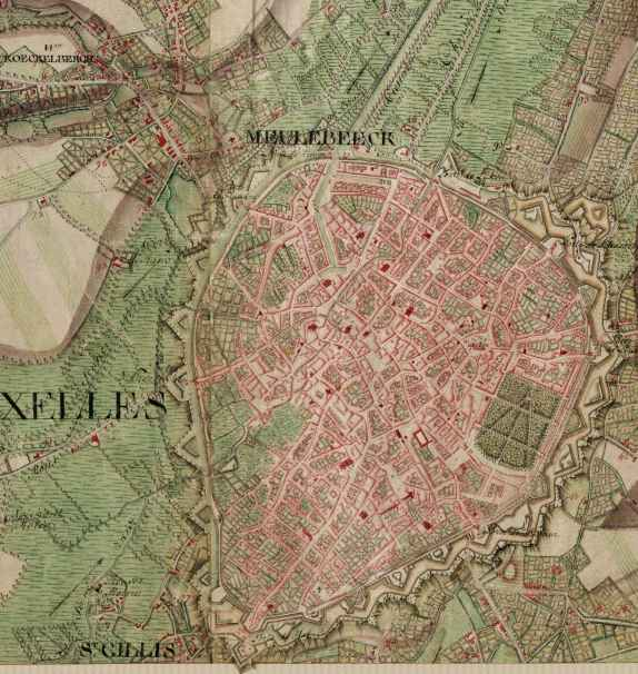 Brussels,_Belgium_;_ detail from Ferraris_Map